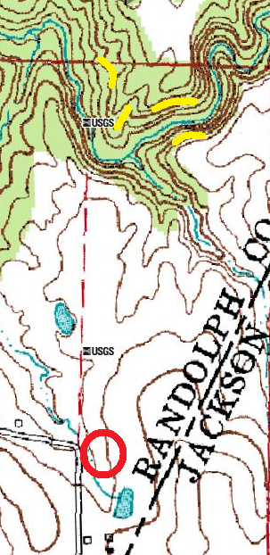 Five specific locations at Piney Creek Ravine State Natural Area in southeastern Randolph County, Illinois, United States. The red circle is the parking area, while the four yellow locations are petroglyph sites. From left to right, they are: Tegtmeyer Piney Creek West Piney Creek (main) Piney Creek South Parking area location is derived from the uploader's experience visiting the site; petroglyph locations are derived from the citations at this edition of the English Wikipedia's article "National Register of Historic Places listings in Randolph County, Illinois."